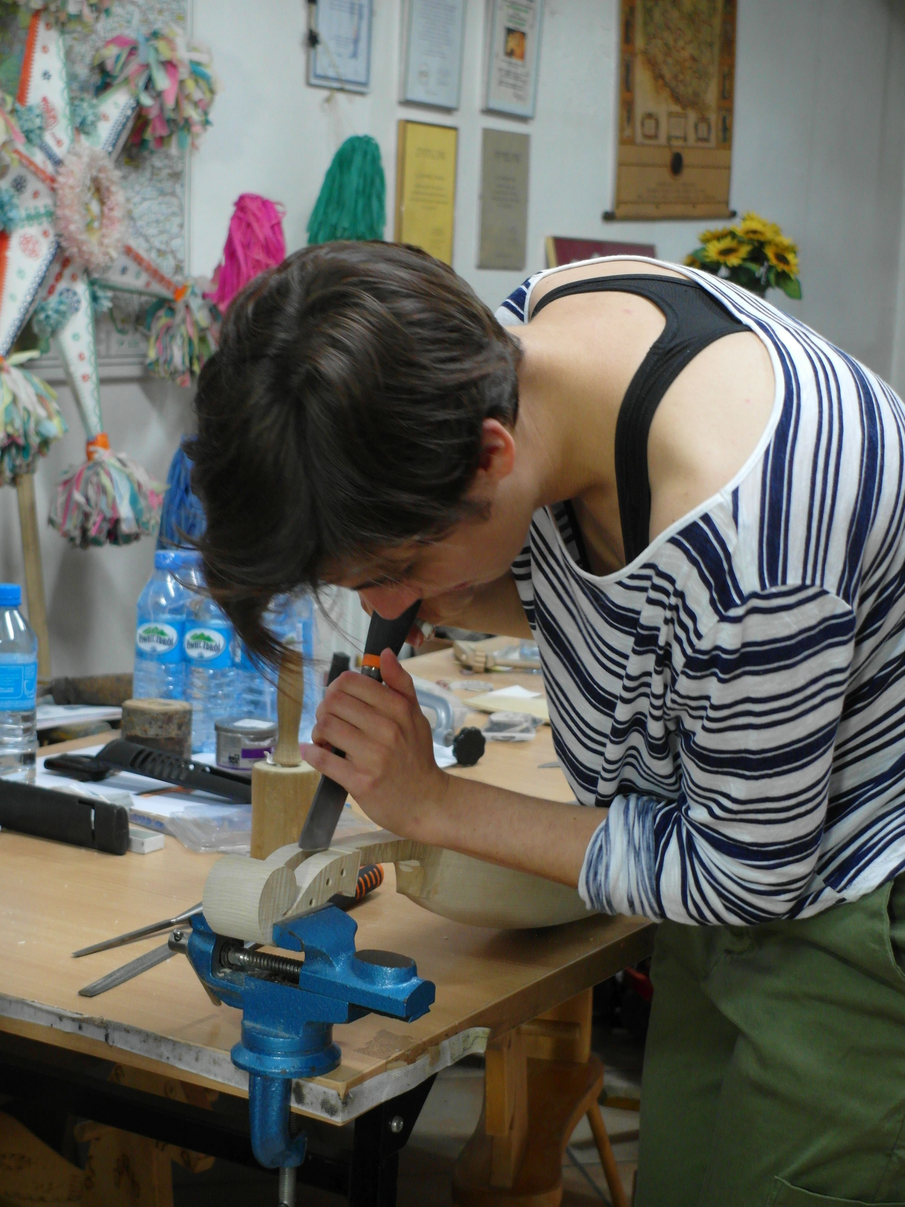 Folk musical instruments workshop, Żywiec Beskids